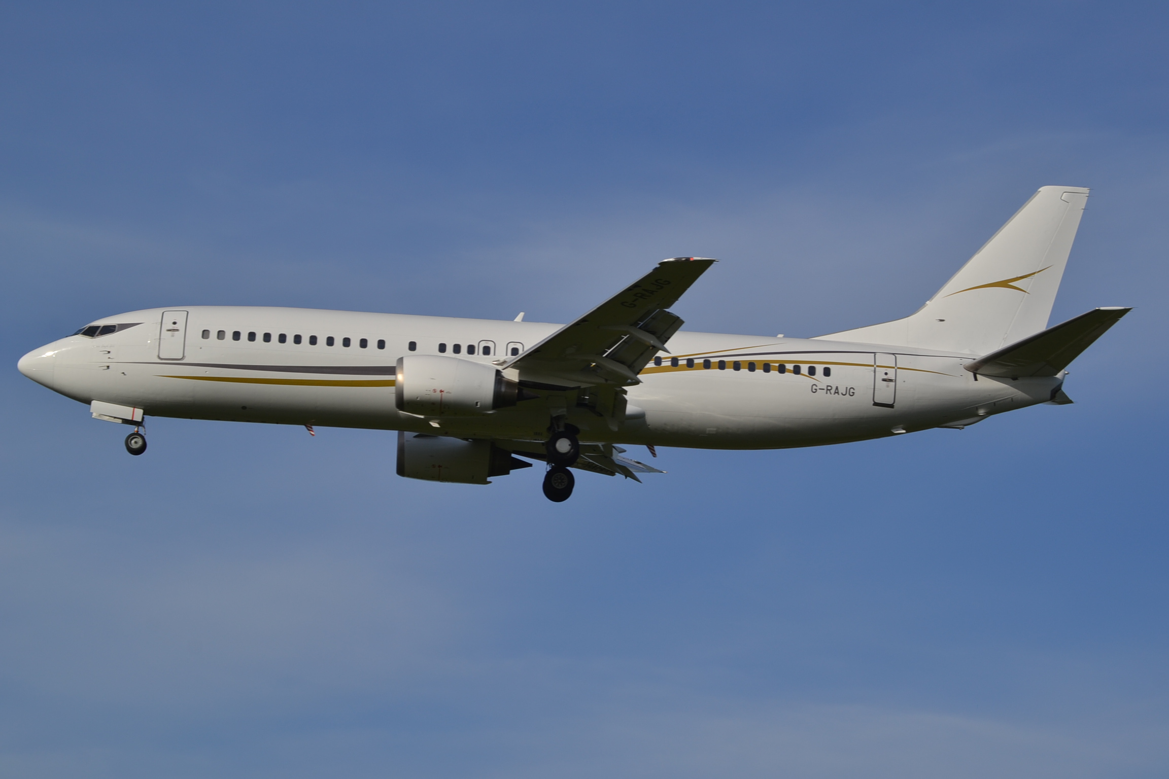 Boeing 737/4 of Cello Aviation,on it's delivery flight, on final approach to rwy.33 at Birmingham-BHX, 21/05/15.